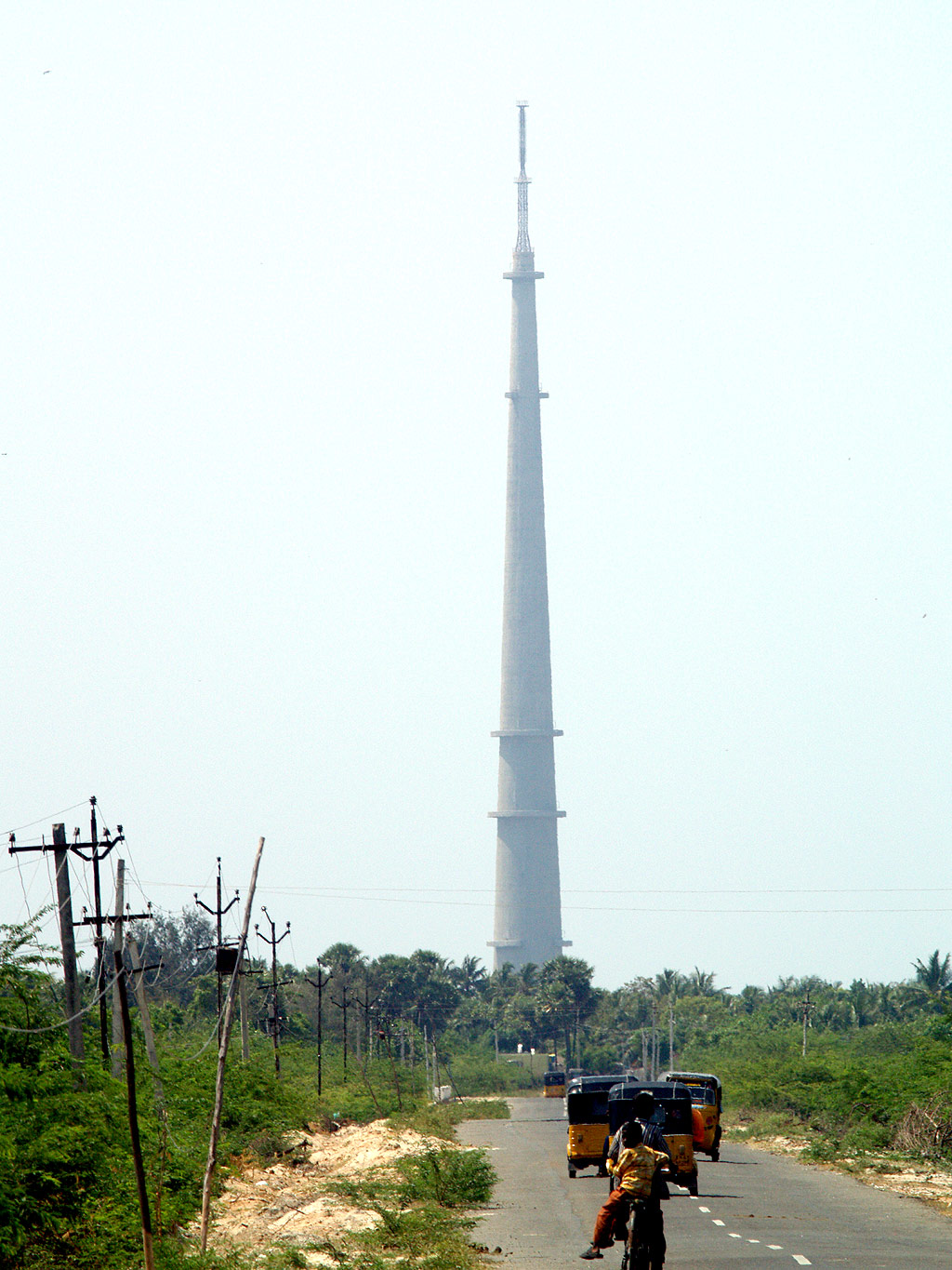 Photo taken by flickrPrince